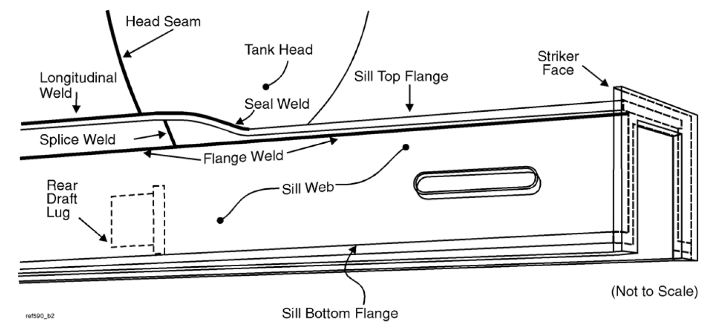 Basic Critical Region Structural and Weld Details